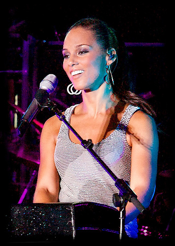 Alicia Keys at Tokyo Summer Sonic 2008.